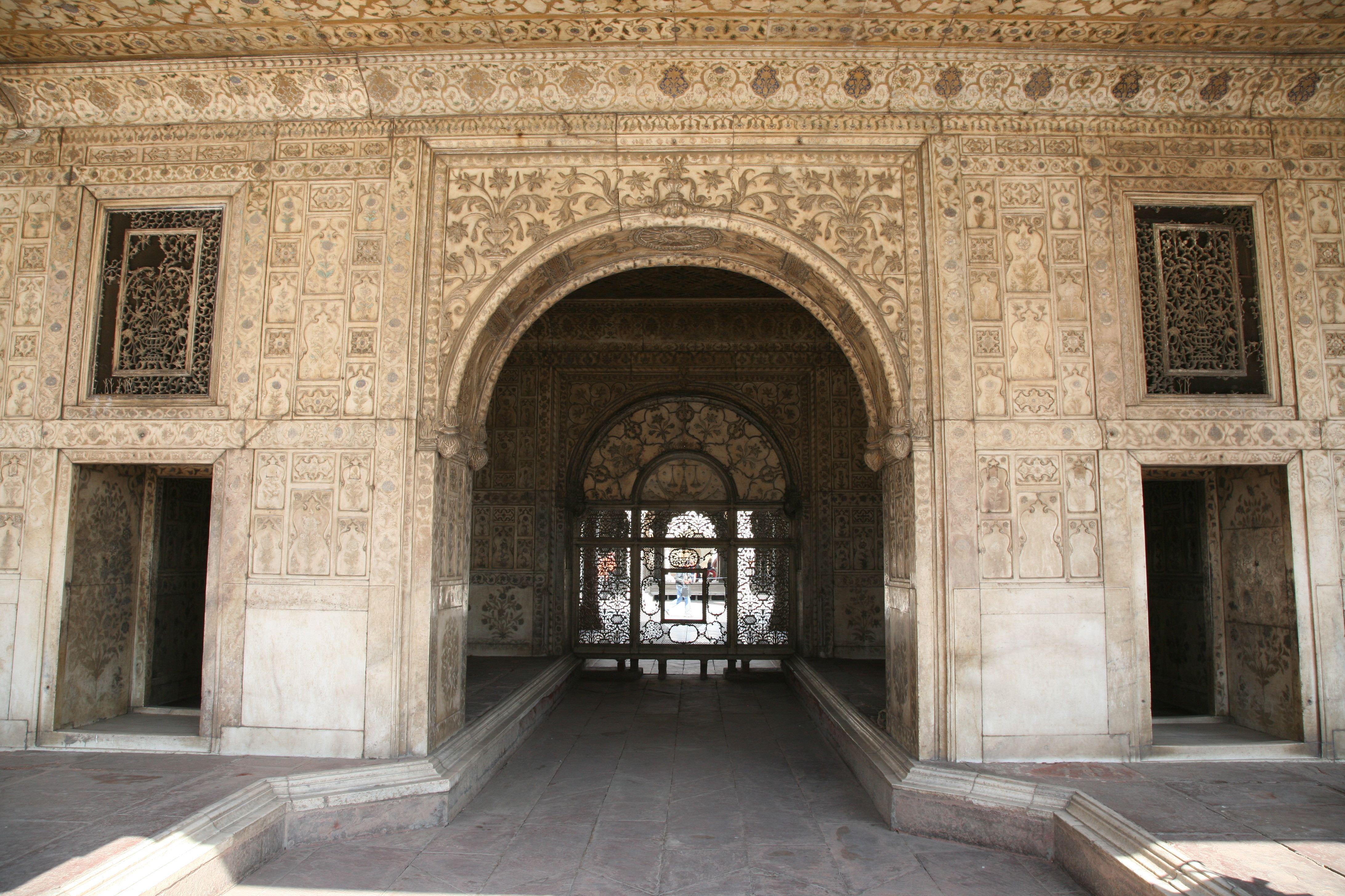 Khas Mahal at the Red Fort, Delhi